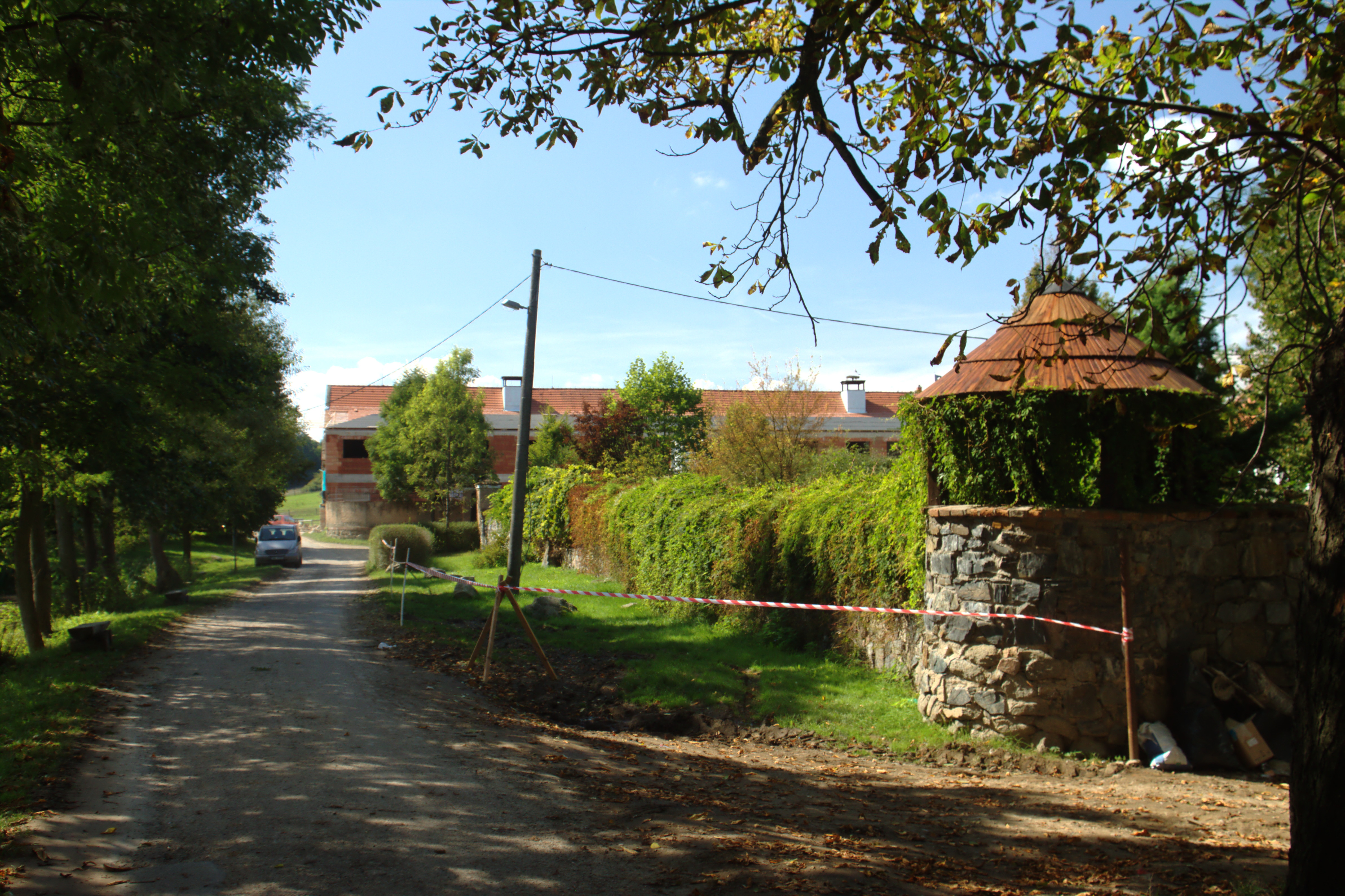 A agricultural facility in the village of Nedvězí, Central Bohemian Region, CZ